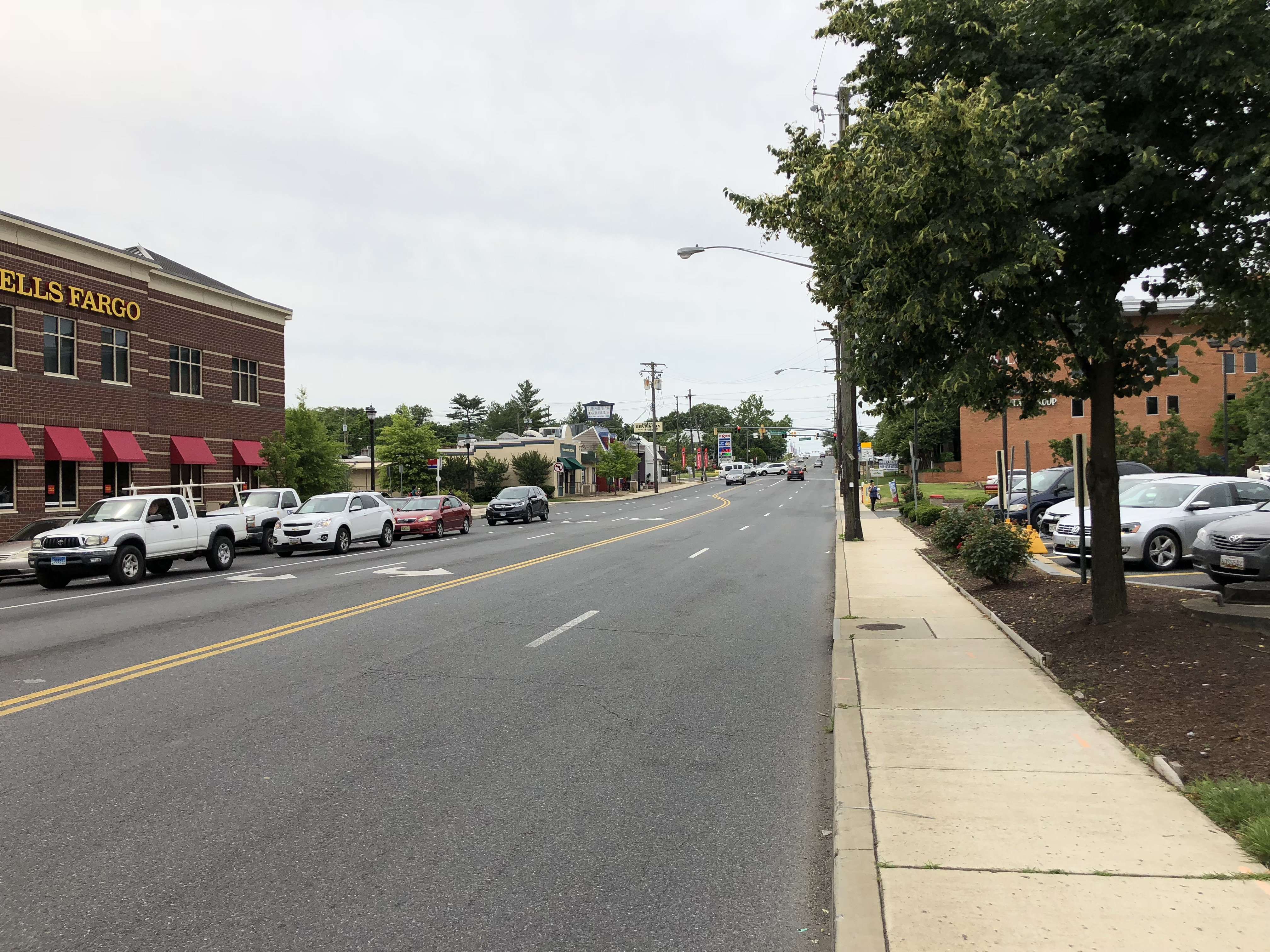 View south along U.S. Route 1 (Baltimore Avenue) just south of Maryland State Route 410 (East-West Highway) in Riverdale Park, Prince George's County, Maryland